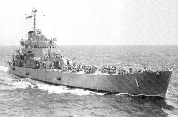 The U.S. Navy inshore fire support ship USS Carronade (IFS-1) underway at sea, circa in the 1950s.